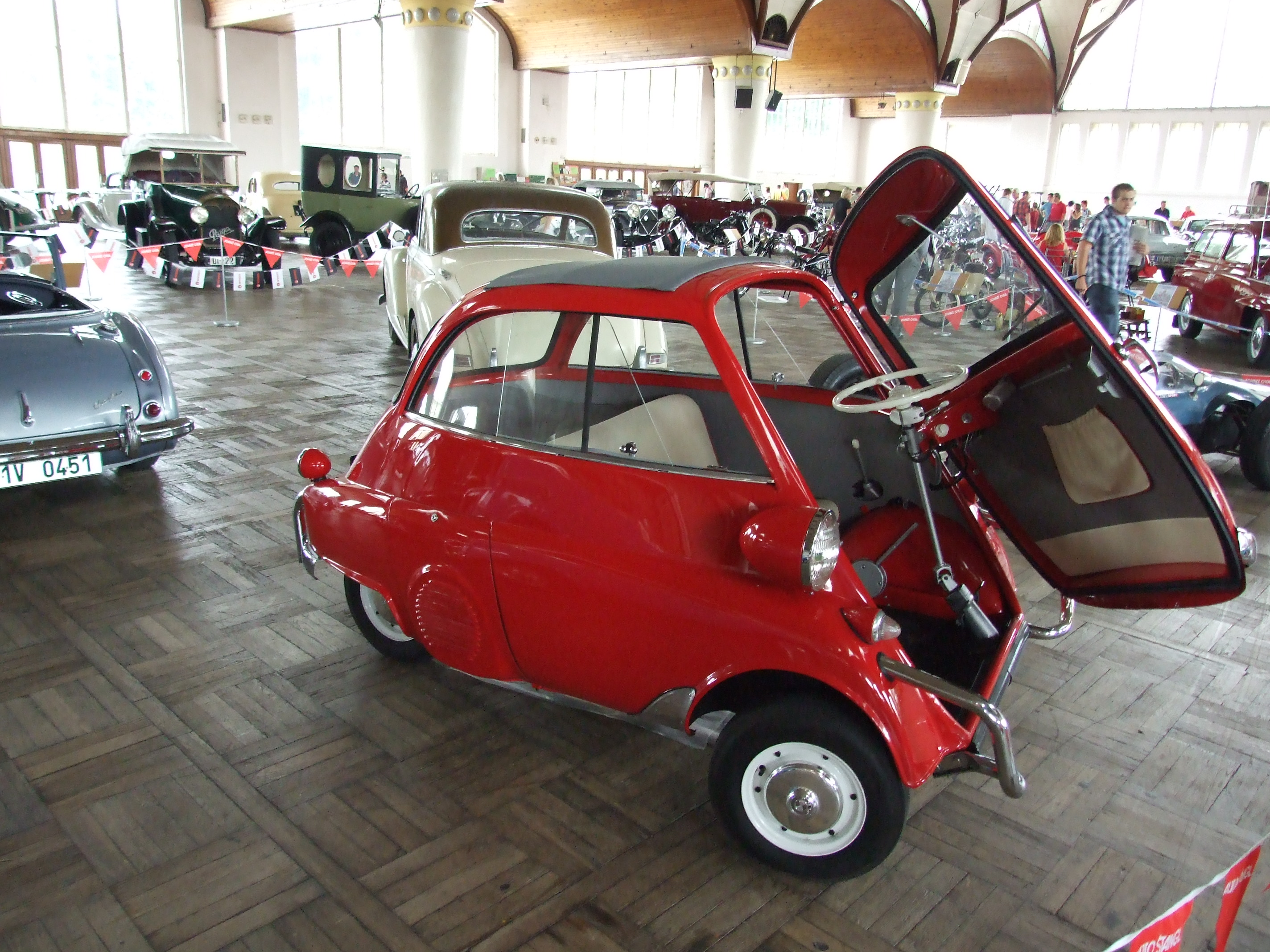 BMW Isetta on Retro Prague 2008 car exhibitionhelp